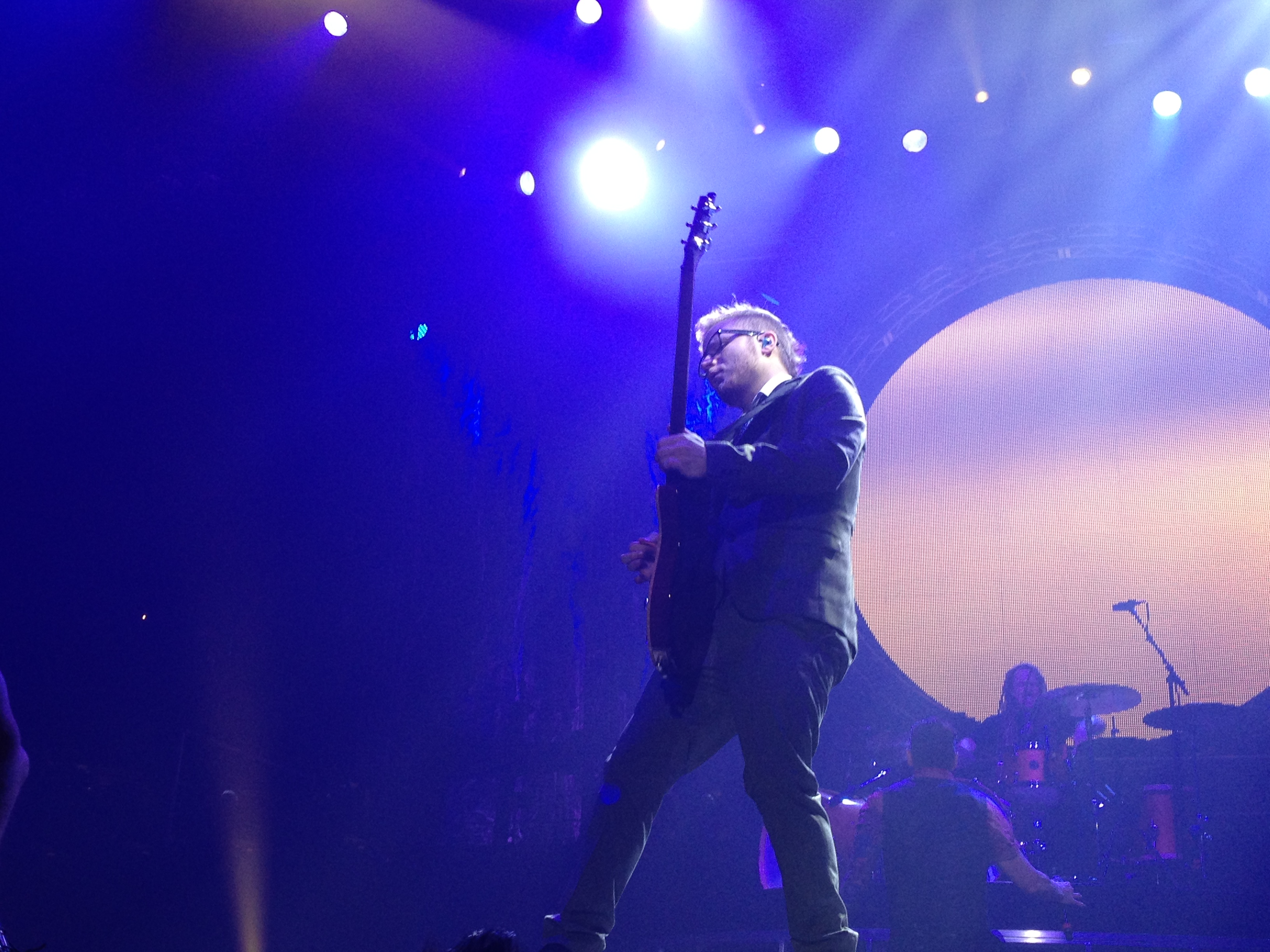 Zach Myers of Shinedown performing at the Dow Event Center of Saginaw, Michigan on February 12th, 2013.